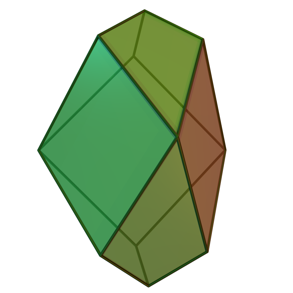 The Herschel graph as a polyhedron.